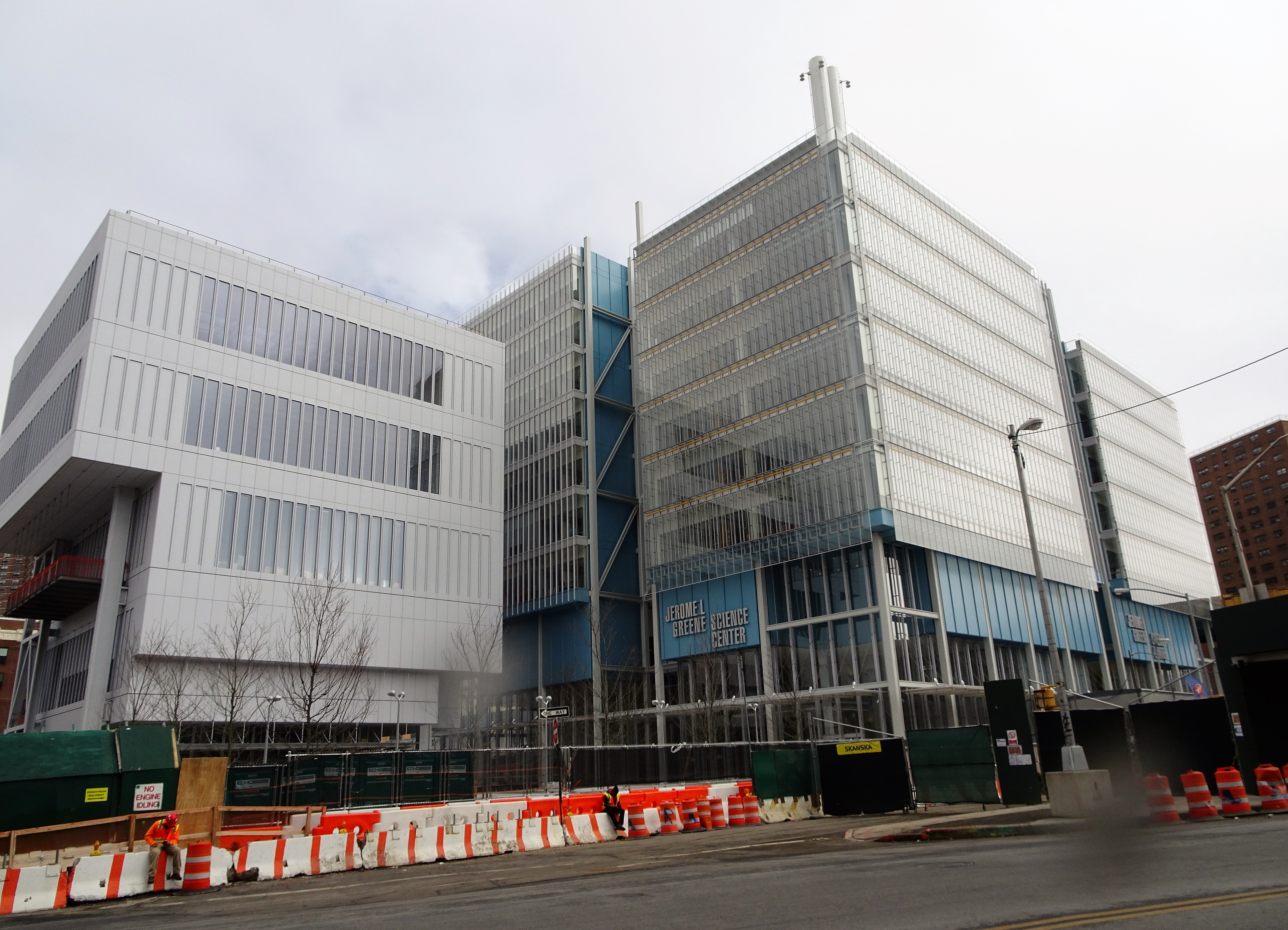 Looking east across W125 Street at Columbia's new Science Center under construction on a cloudy day. EXIF shows position 40m east of here due to photographer's error.